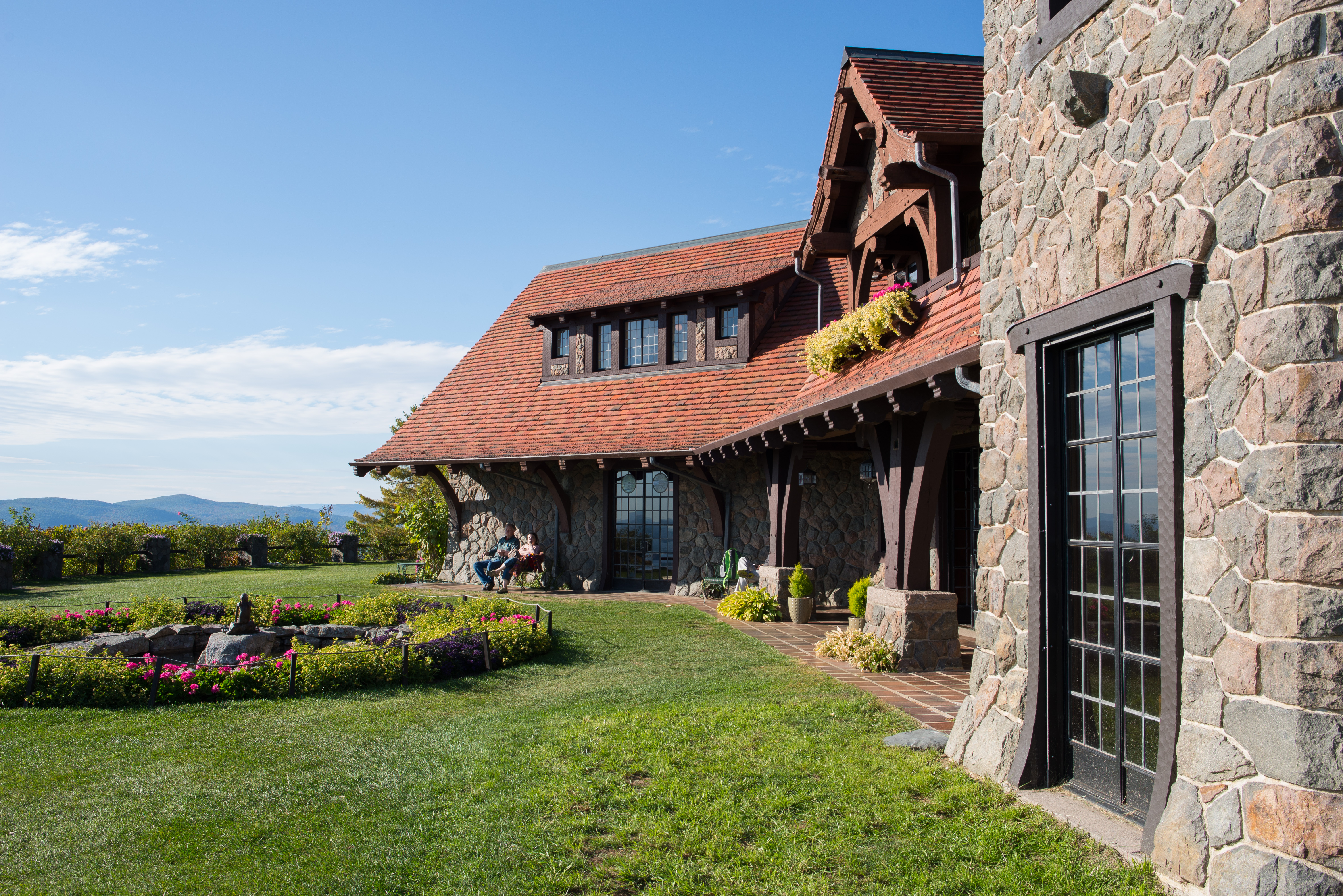 The estate and view from Castle in the Clouds, also known as Lucknow, in Moultonborough, New Hampshire.